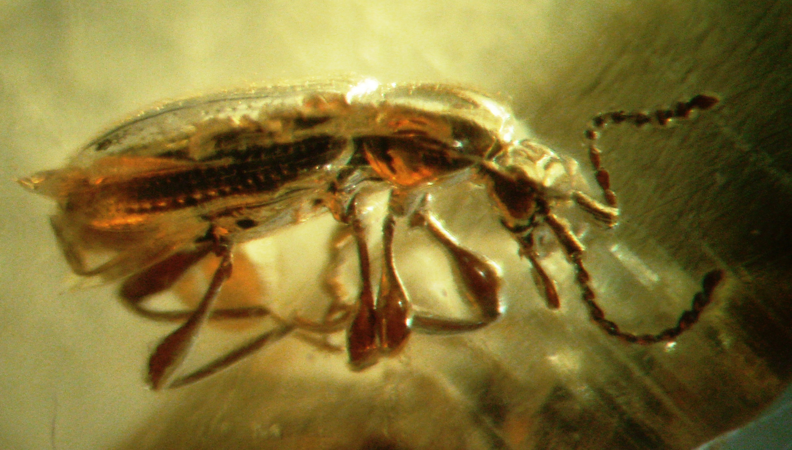 Baltic amber inclusions - 50 million years old - Coleoptera, Scydmaenidae, ...?